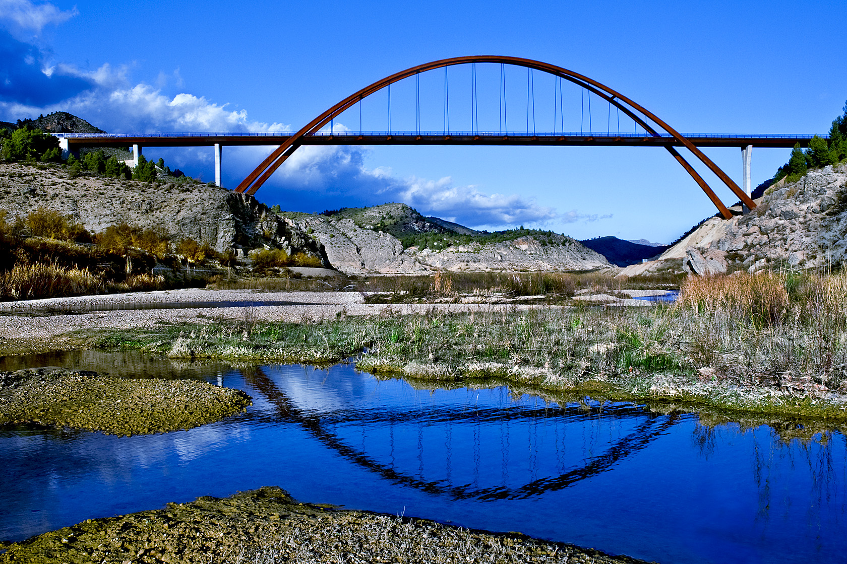 La Vicaria Arch Bridge over Segura river, Spain